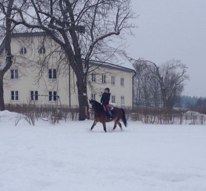 Närsjö Manor, Eskilstuna, Sweden